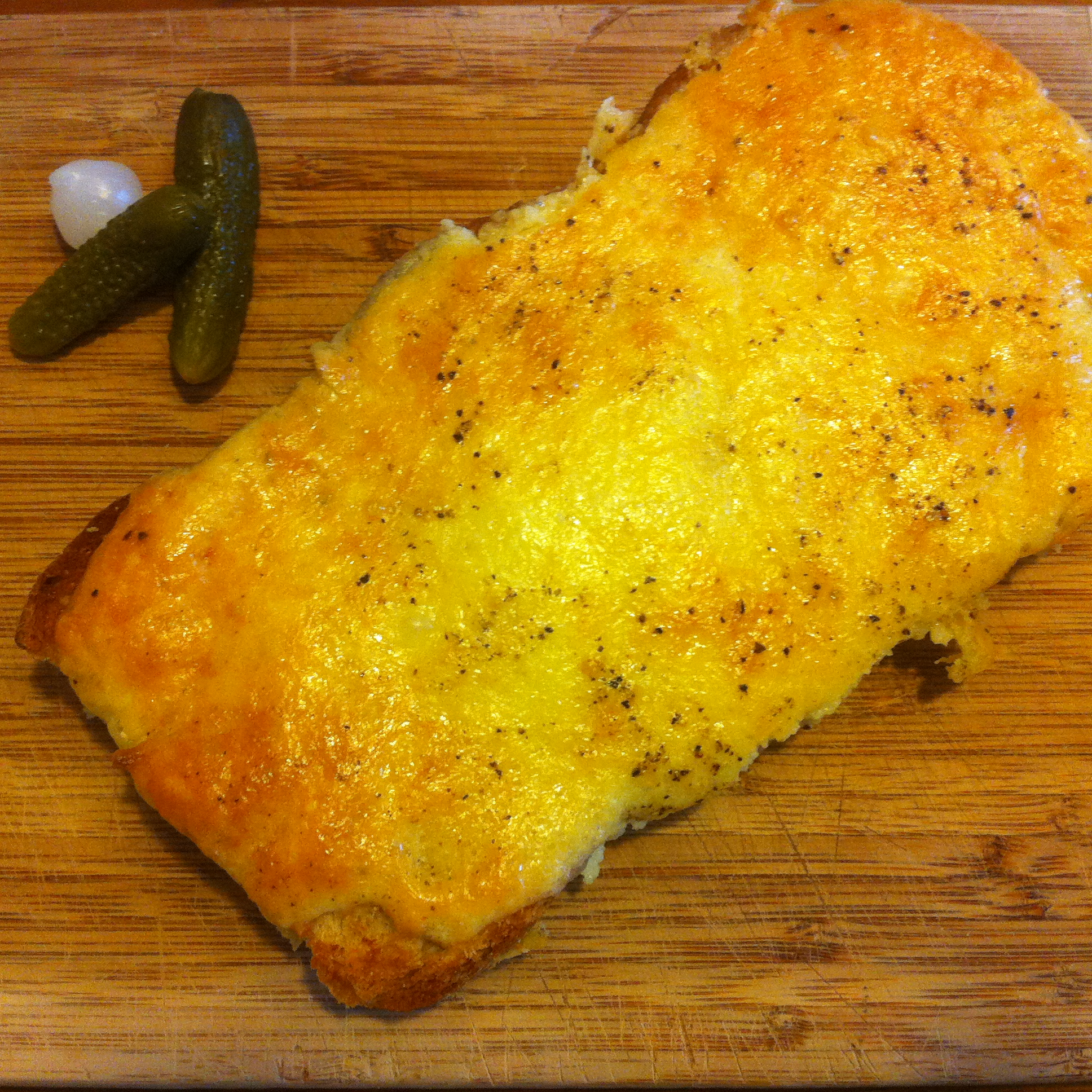 Toasted cheese on bread, a Swiss staple